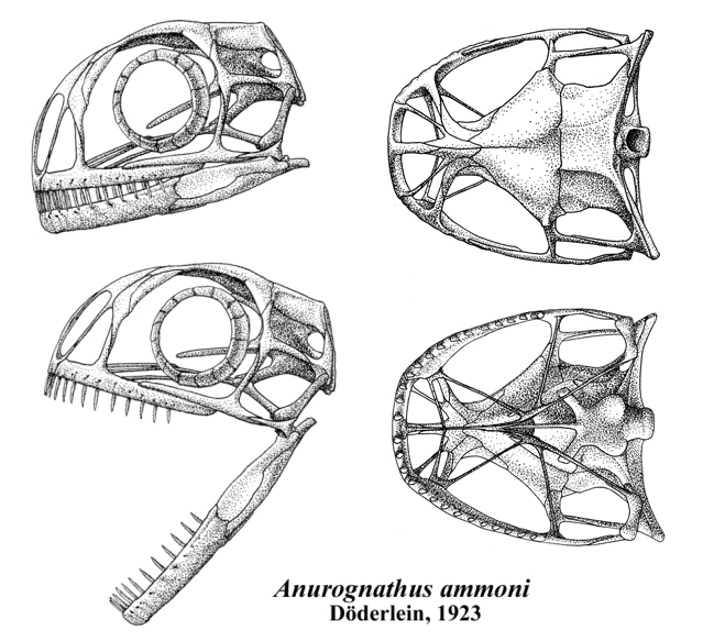 Skull reconstruction of Anurognathus.